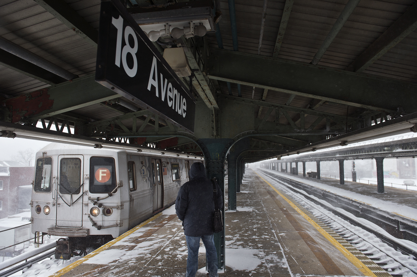 MTA New York City Transit battled the blizzard as crews cleared snow along the Q line in Brooklyn on Saturday, January 23, 2016. Photo: Metropolitan Transportation Authority / Patrick Cashin